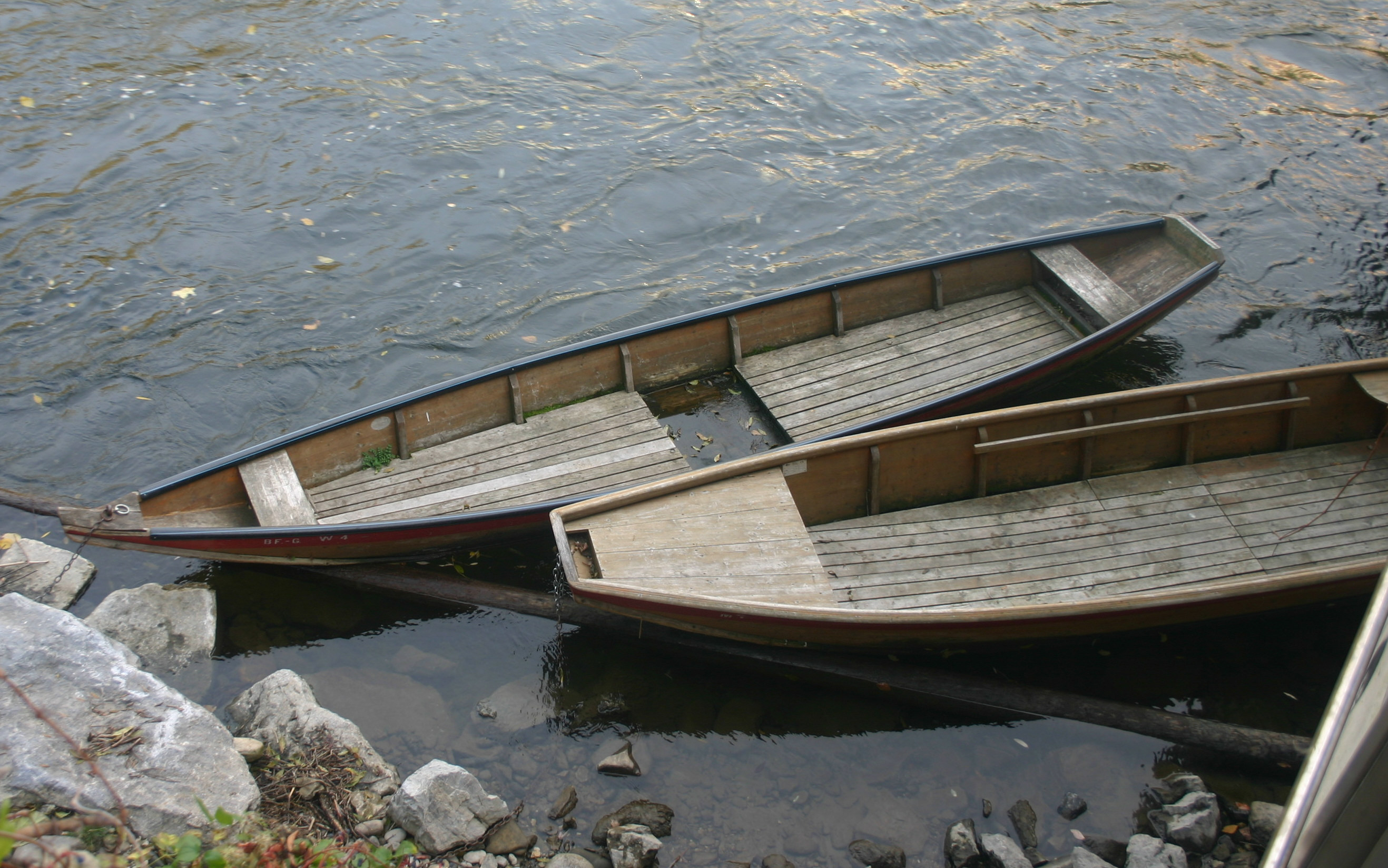 Boats of the career fire brigade in Graz waiting in the Mur river near the Marihilferplatz